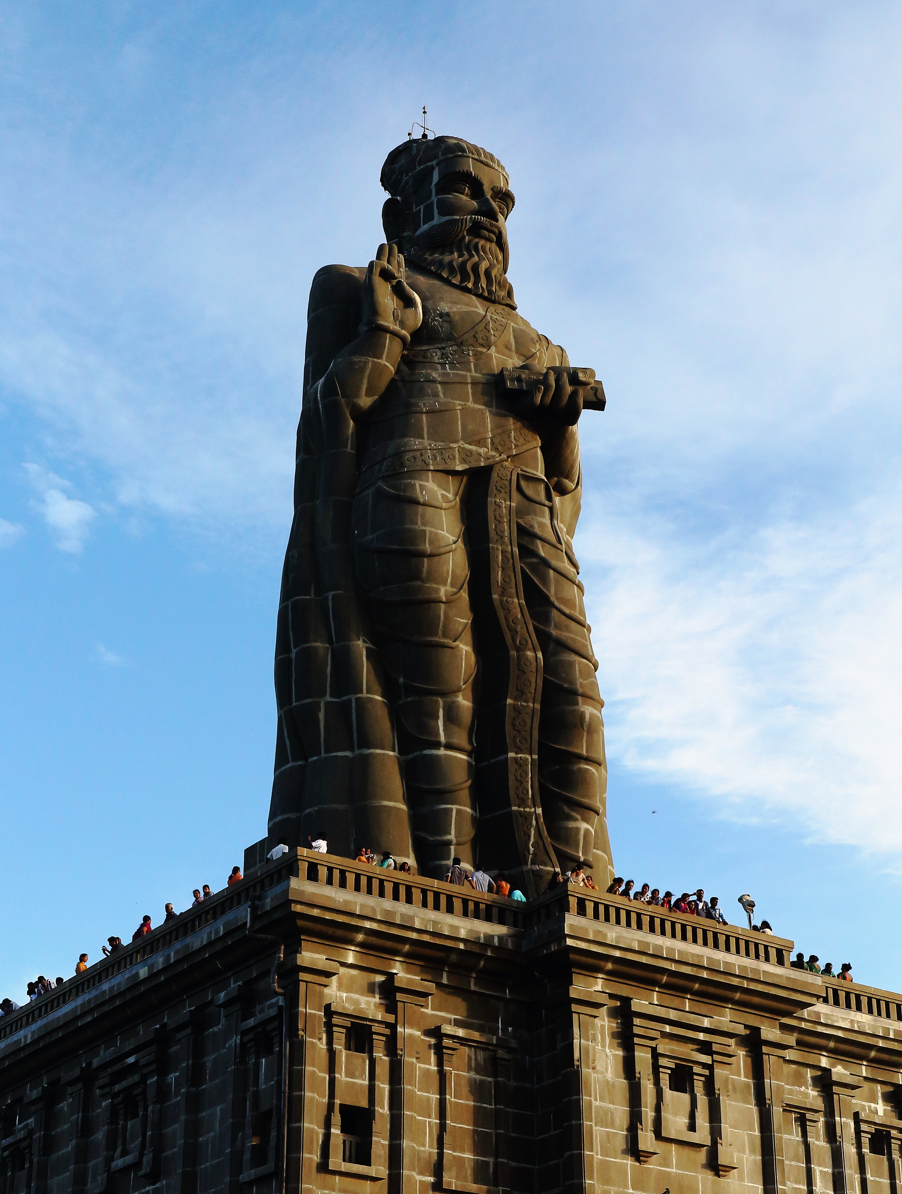 133 feet Granite statue of Thiruvalluvar, a great Tamil poet & philosopher - people at the base